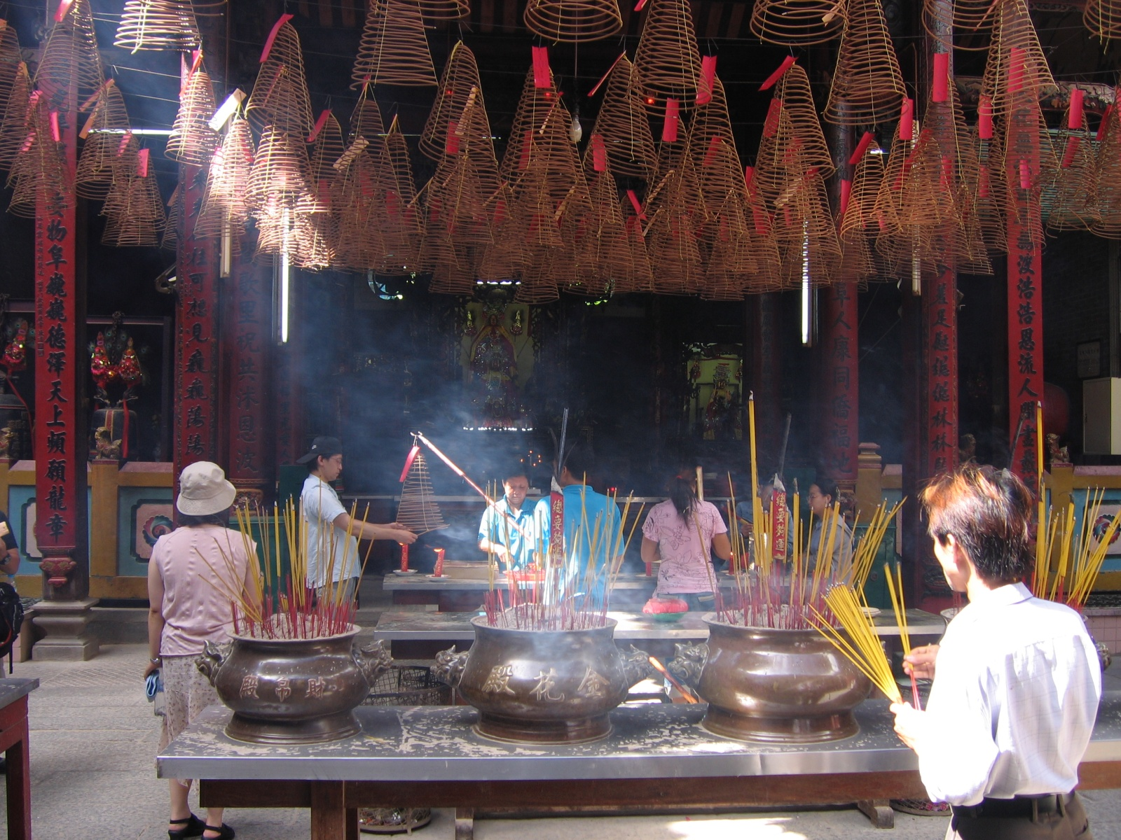 Inside the Thien Hau Pagoda in Cho Lon, Ho Chi Minh City, Vietnam.